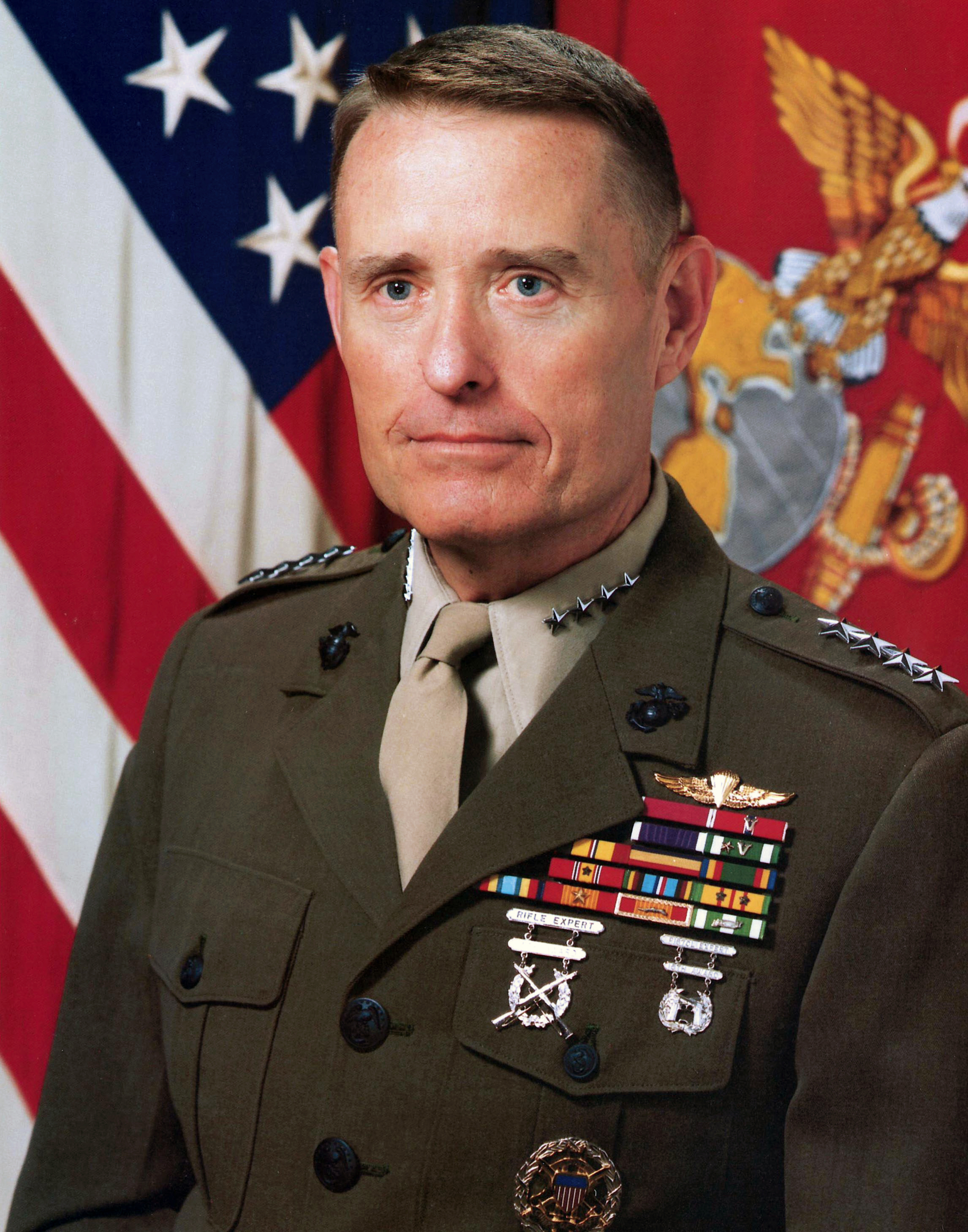 General Carl Epting Mundy, Jr., USMC